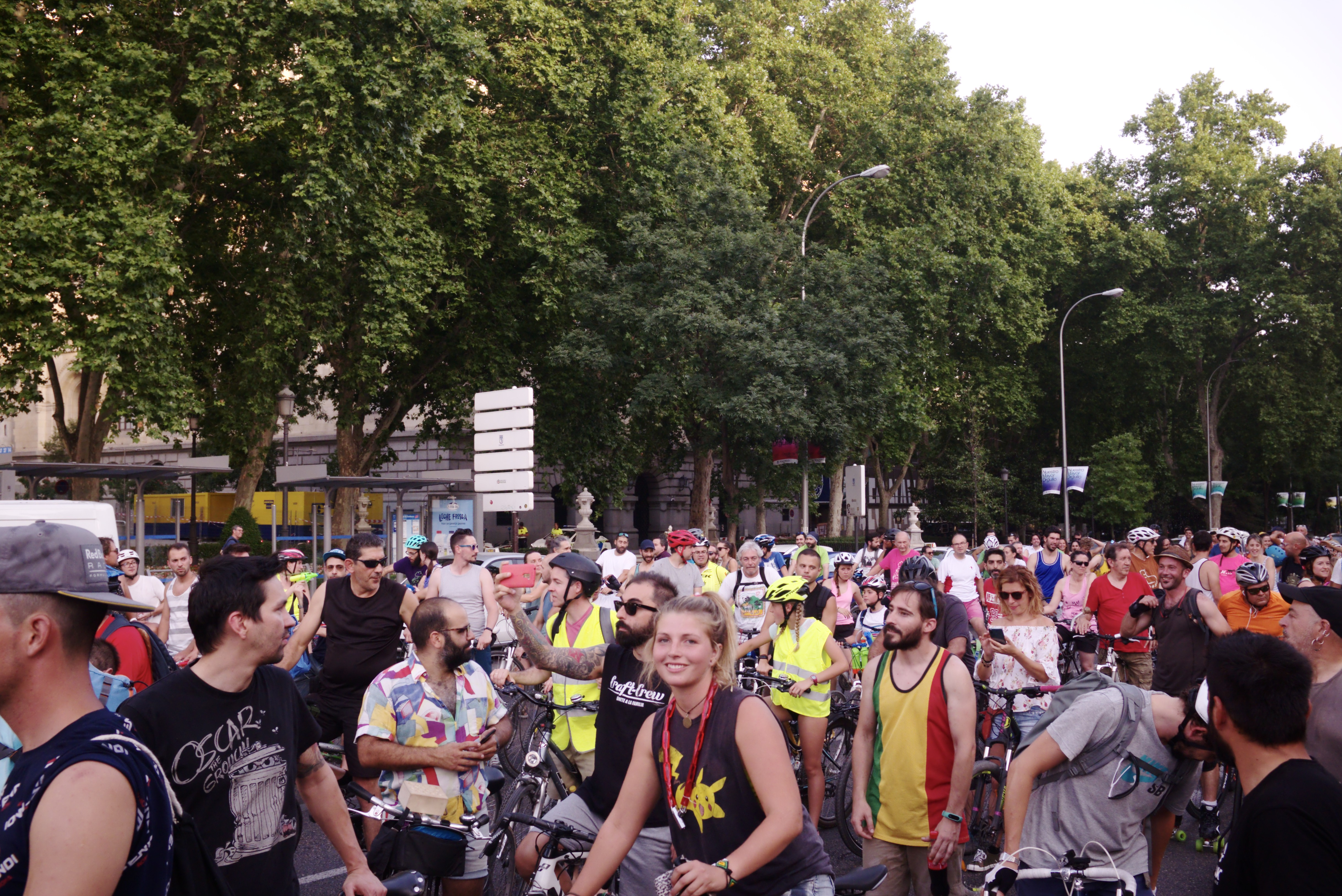 Bici Crítica (Critical Mass) in Madrid